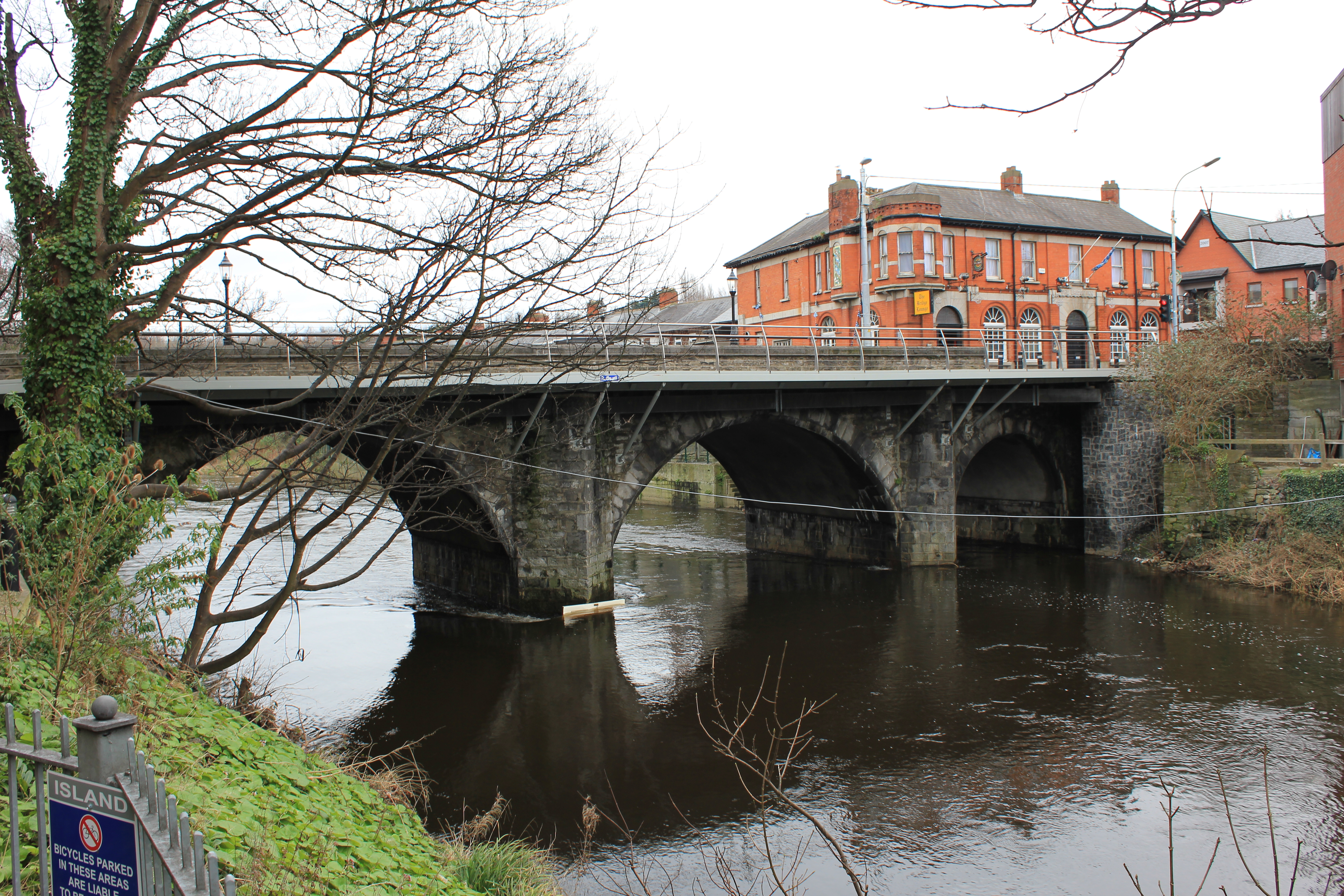 Anna Livia bridge looking east.